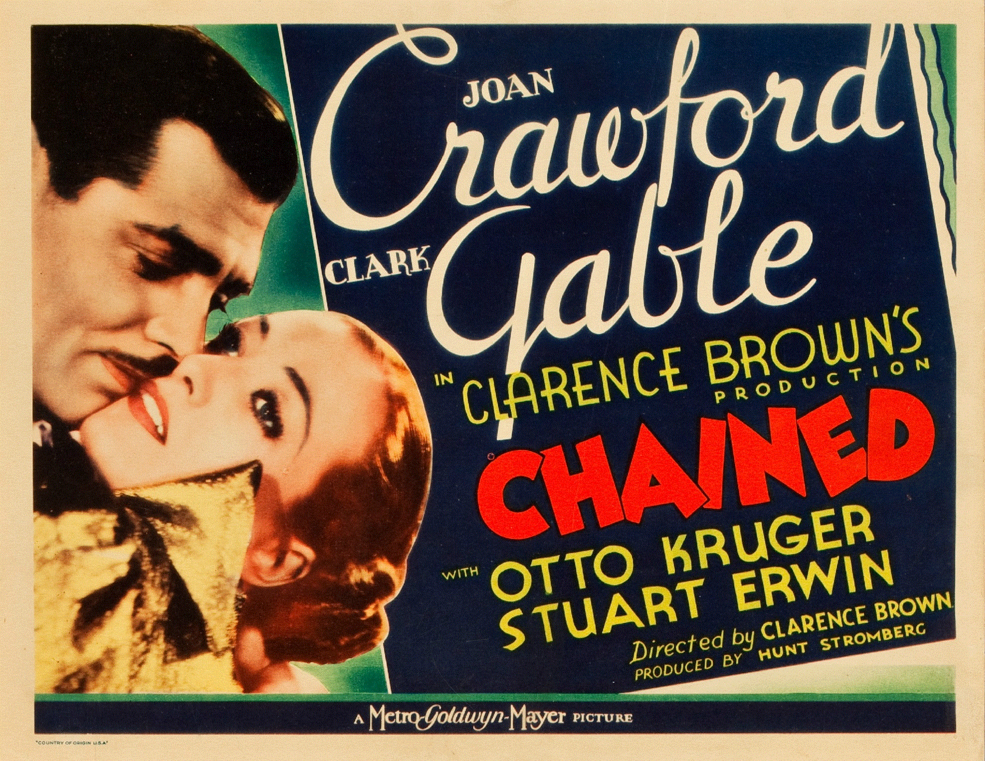 Lobby card for the 1934 film Chained. There are no copyright marks. At bottom left is Country of origin USA.